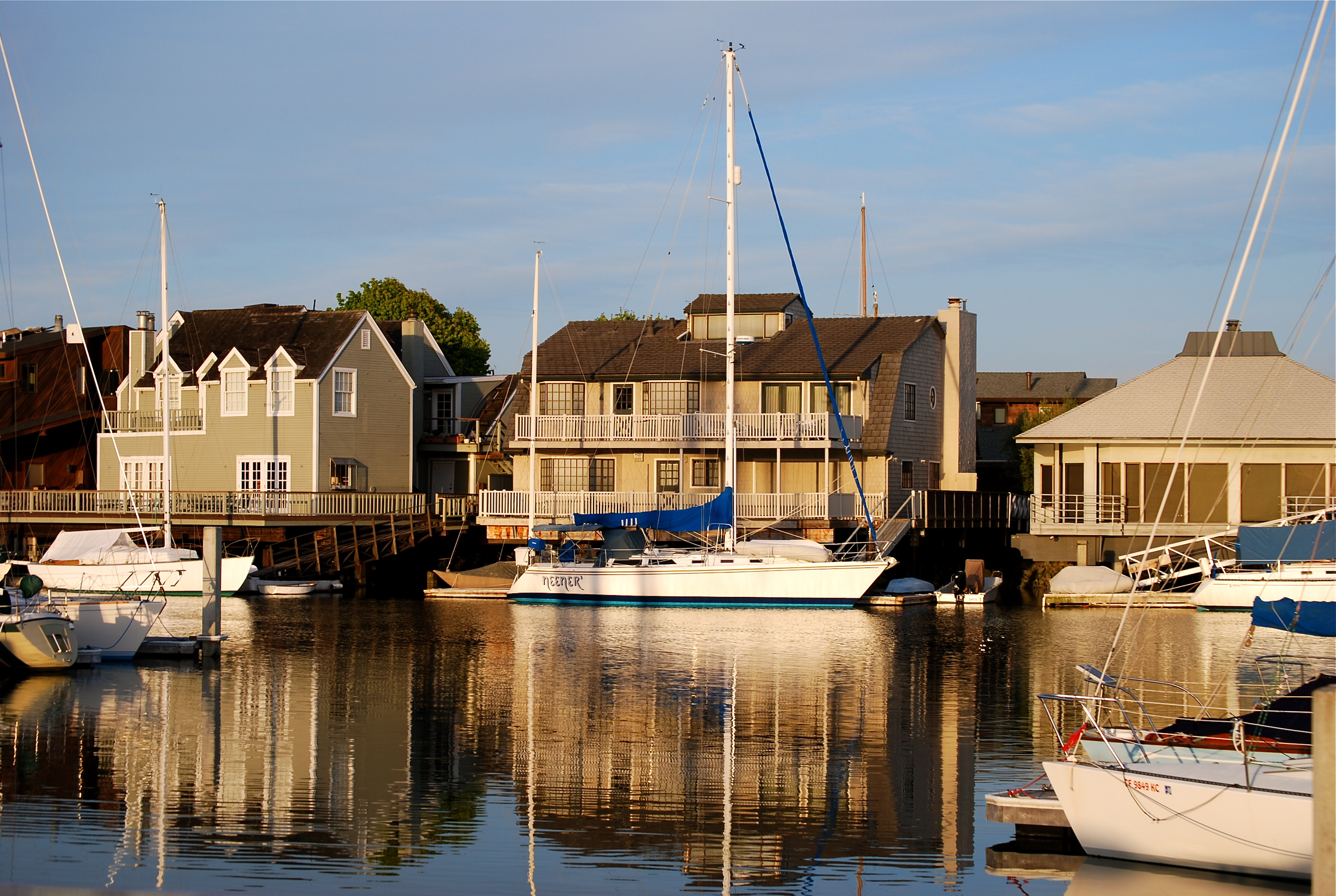 view of Brickyard Cove from pt. Richmond Yacht club. Not a bad life when you can park your boat at the back door.